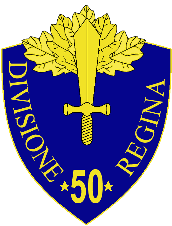 50a Divisione Fanteria Regina insignia, Regio Esercito, Italy, WWII